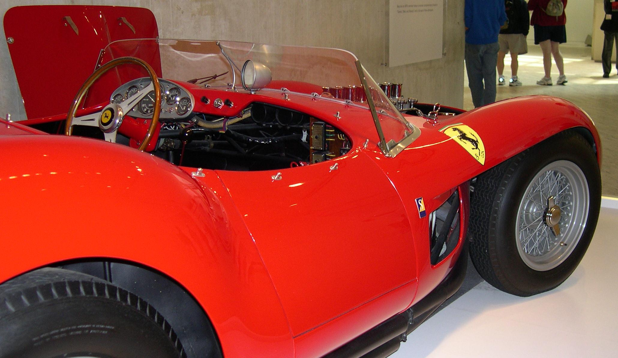 1958 Ferrari 250 Testa Rossa Showing interior and wheel vent details Scaglietti-bodied 250 racer from the Ralph Lauren collection on display at the Boston Museum of Fine Arts. Photo taken in 2005. Source: Photo by User:Sfoskett